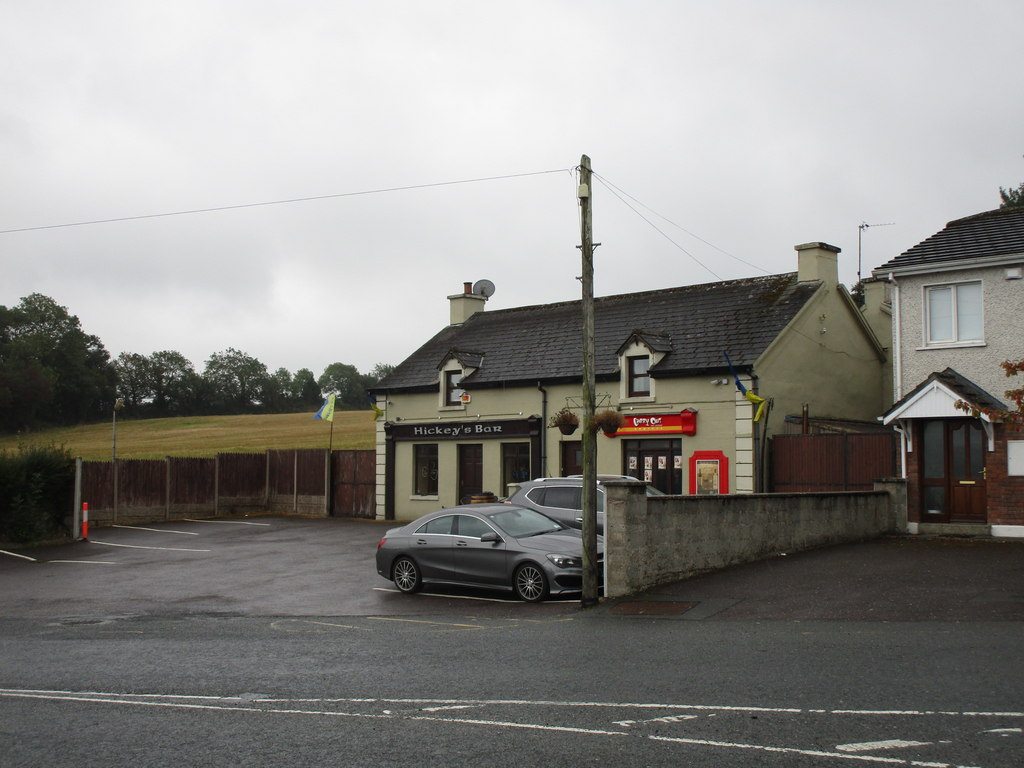 Hickey's Bar, Dromahane